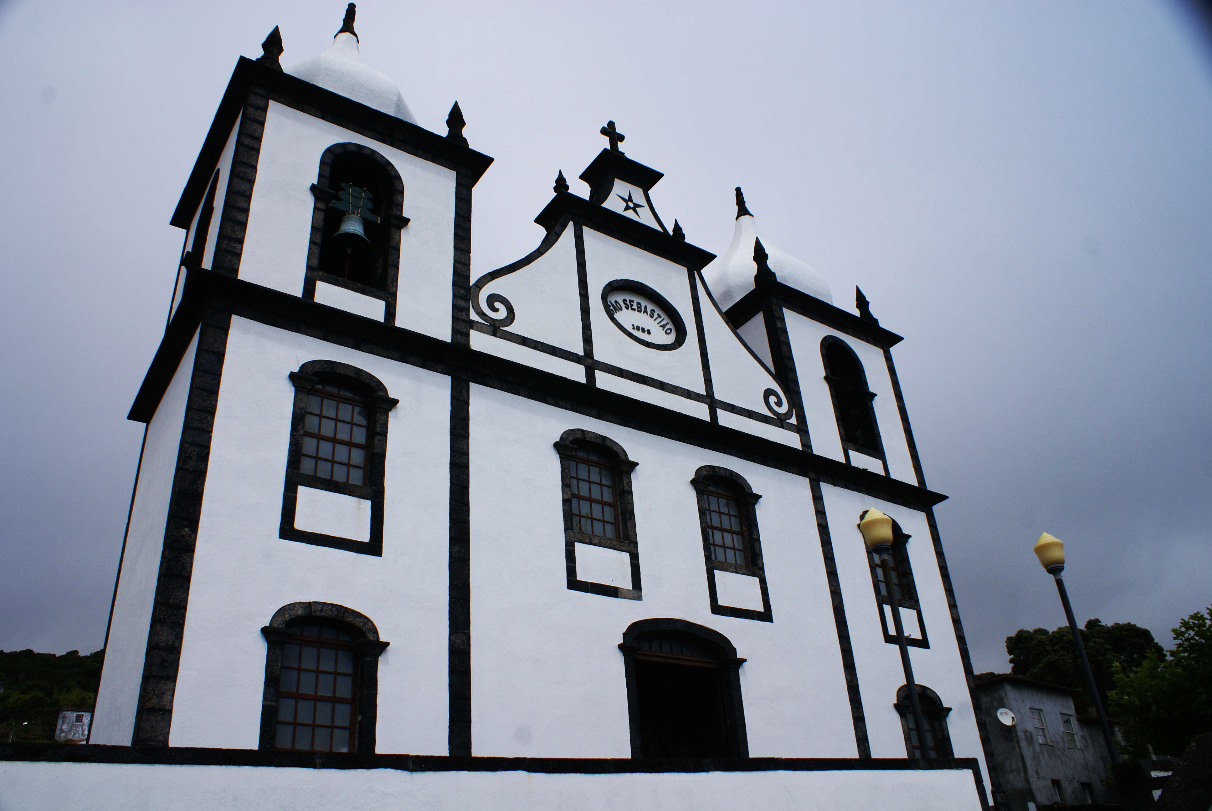 Front façade of the Church of São Sebastião, Calheta de Nesquim, Lajes, Pico (Azores), Portugal